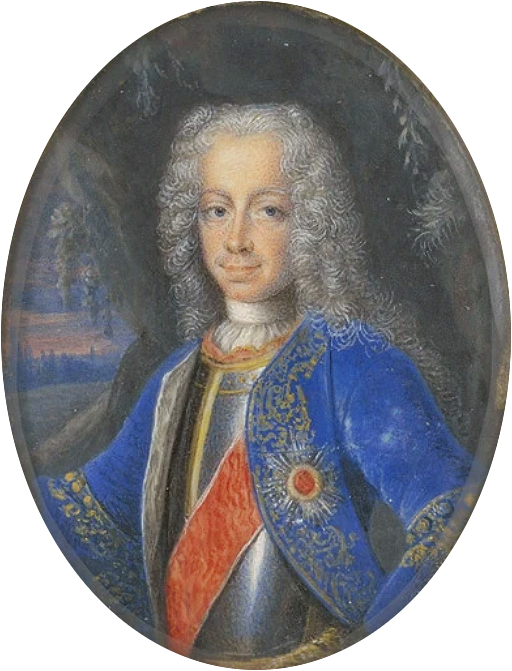 Portrait of Louis VIII, Landgrave of Hesse-Darmstadt (1691-1768)